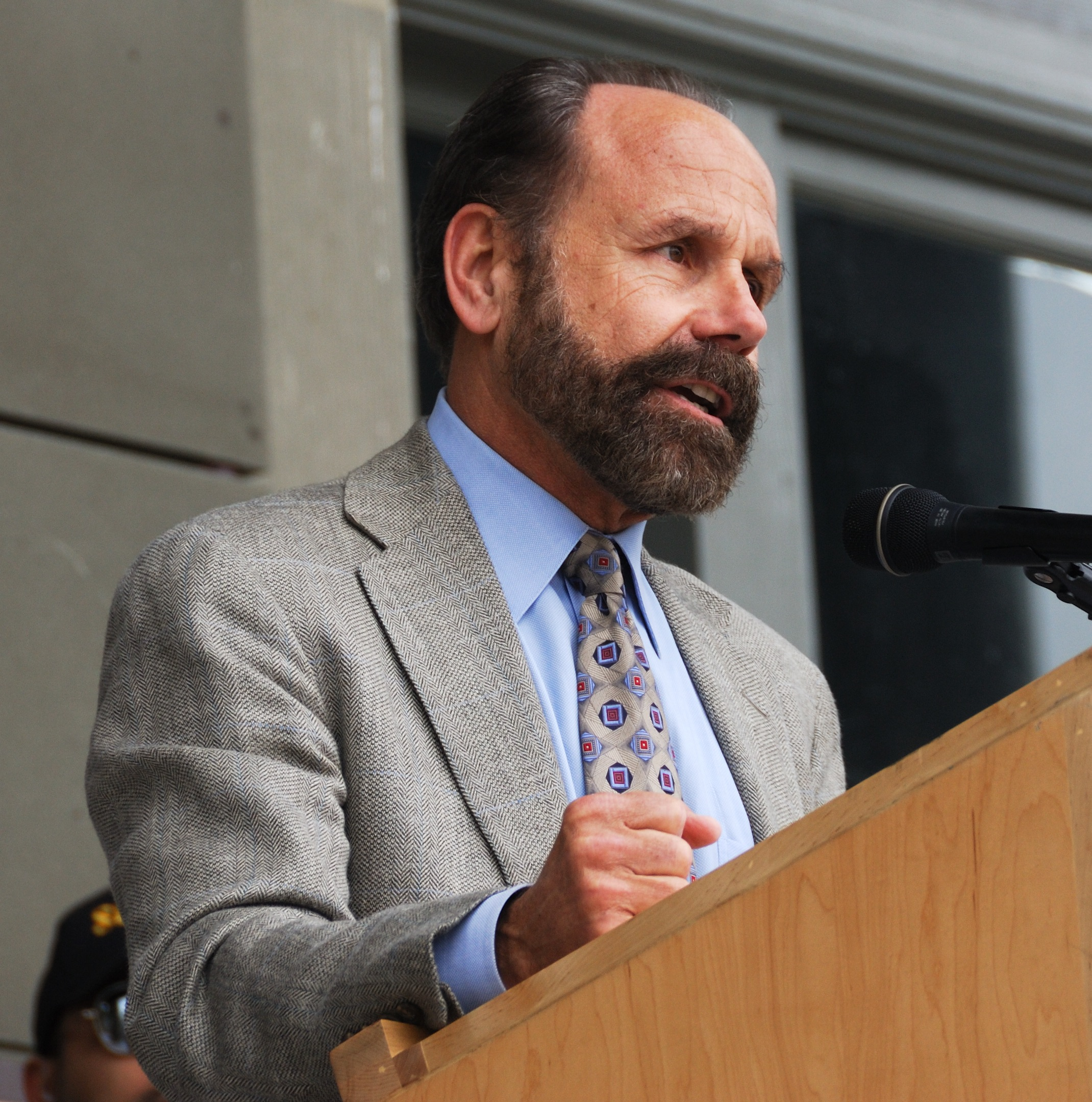 A passionate speech given by Jerry Hill, president of the San Mateo County Board of Supervisors, during the official unvieling of the restored downtown area of Redwood City.